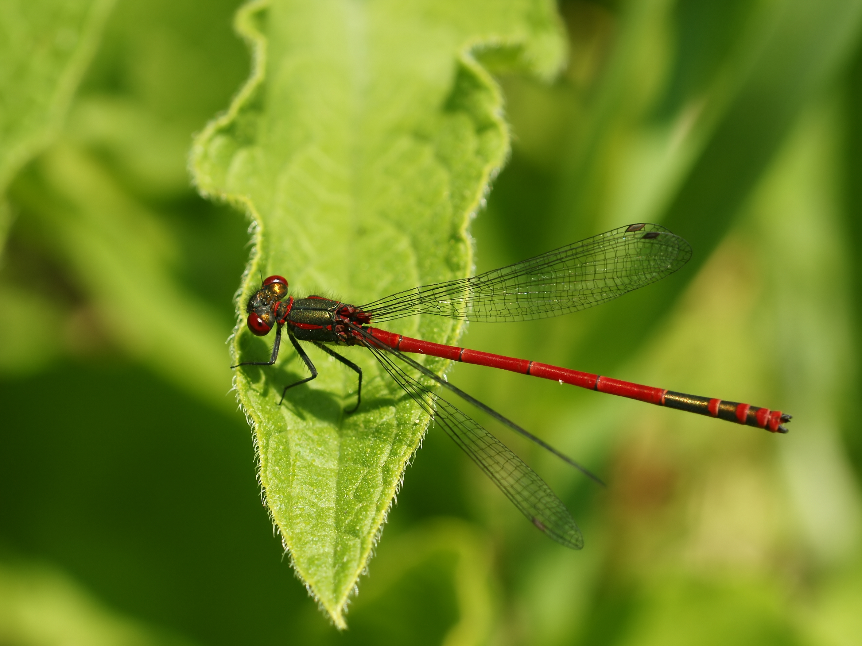 ♂ Large red damselfly at the Leiemeersen in Oostkamp, Belgium.